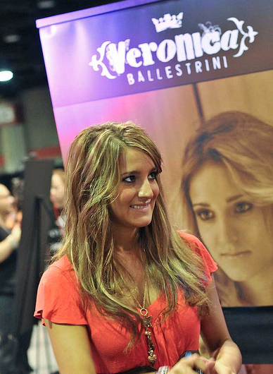 I took this picture of Veronica Ballestrini signing at the CMA Music Fest in Nashville.